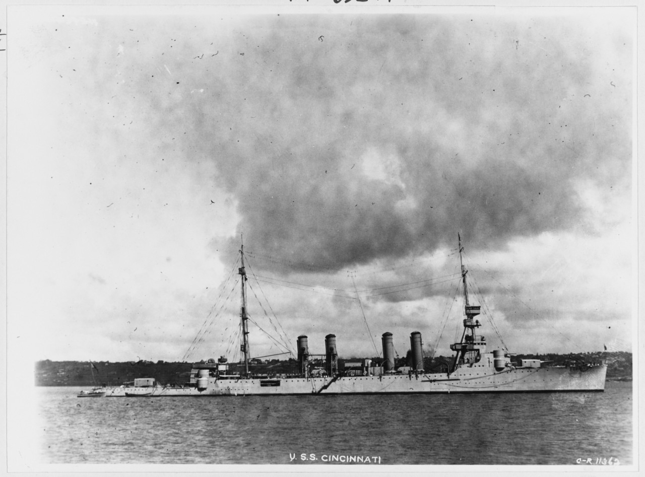 USS Cincinnati (CL-6) in harbor, circa the mid-1920s. NH 63244